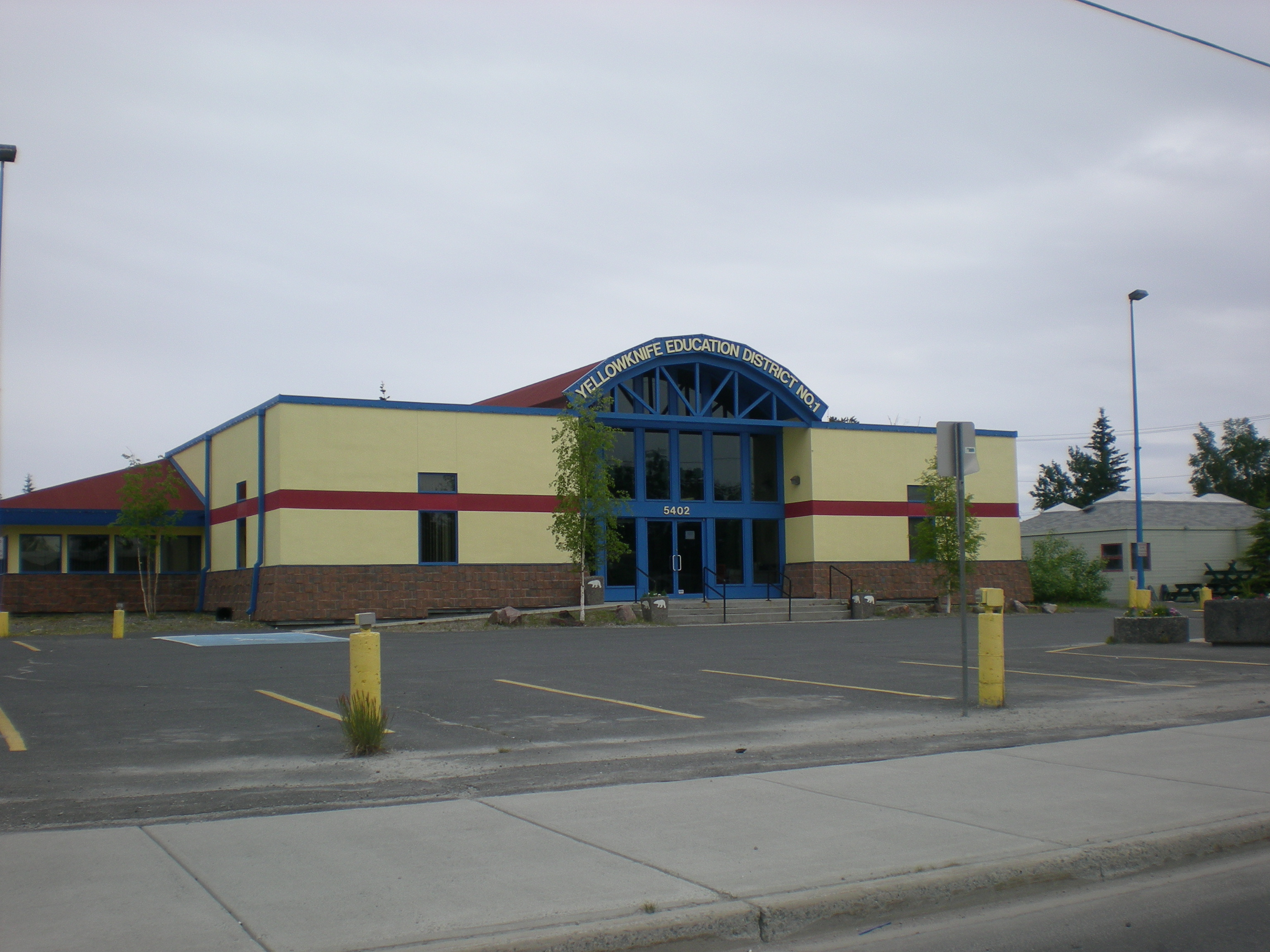 Yellowknife Education District No. 1, located next to Mildred Hall School